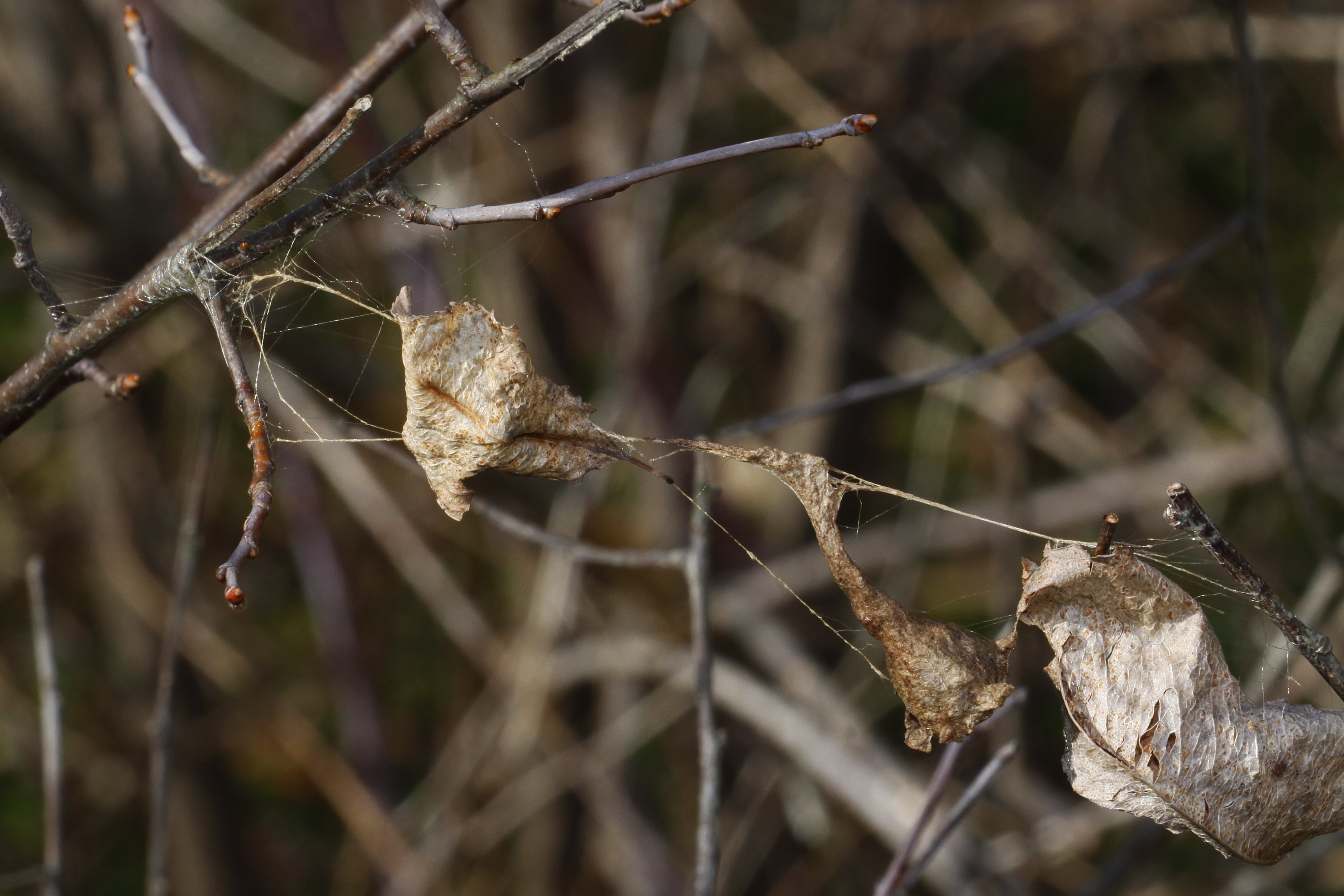 Bolas Spider (Mastophora phrynosoma) egg sac, Julie Metz Wetland, Woodbridge, Virginia. Note the care with which the spider has attached its egg sac to leaves and branches.